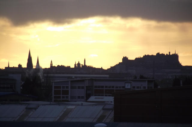 Edinburgh skyline, taken from the overpass of Edinburgh Park Station at sunrise.